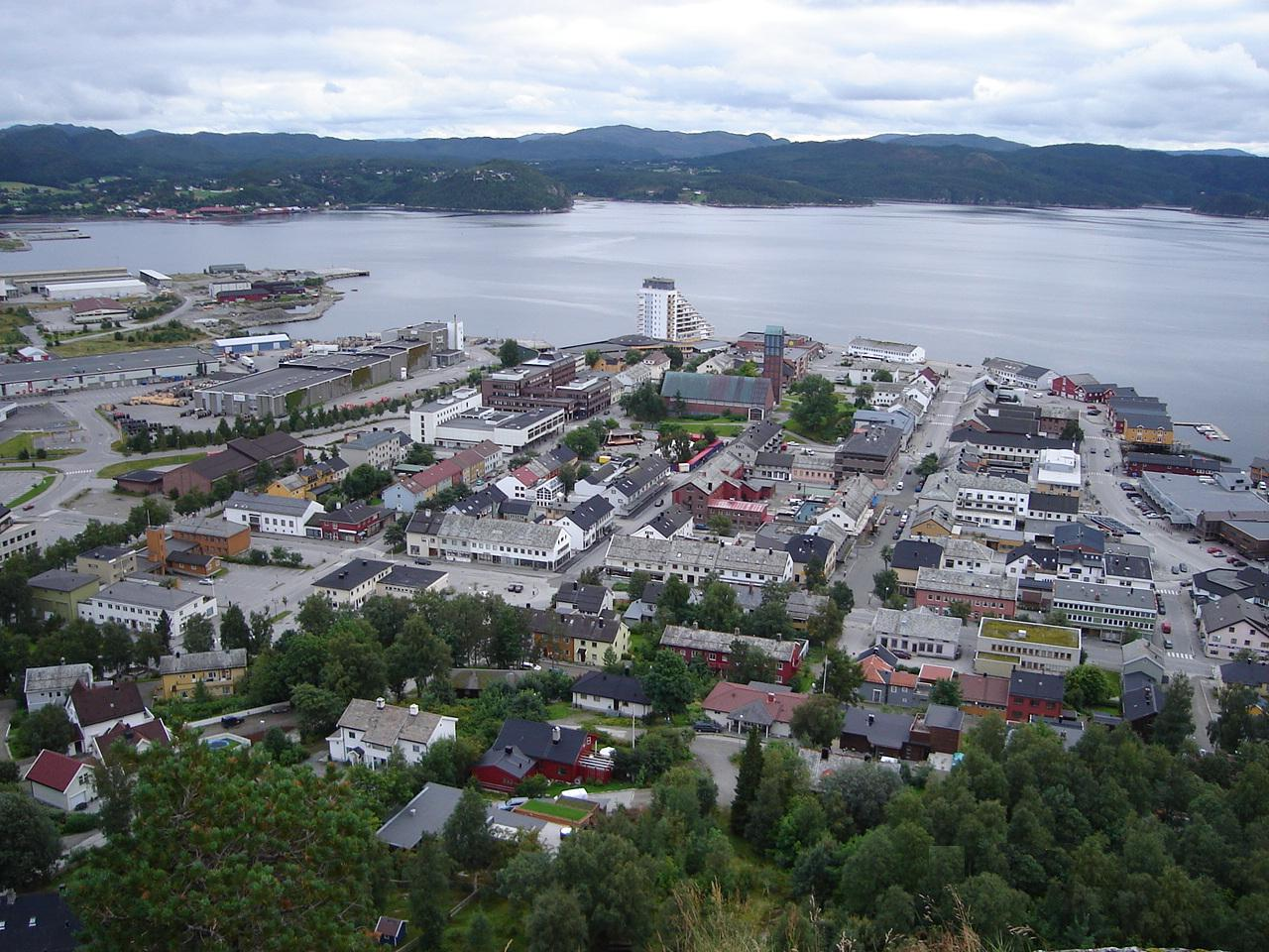 View of Namsos from a mountain. Taken by Sven McCullough, August 2005.